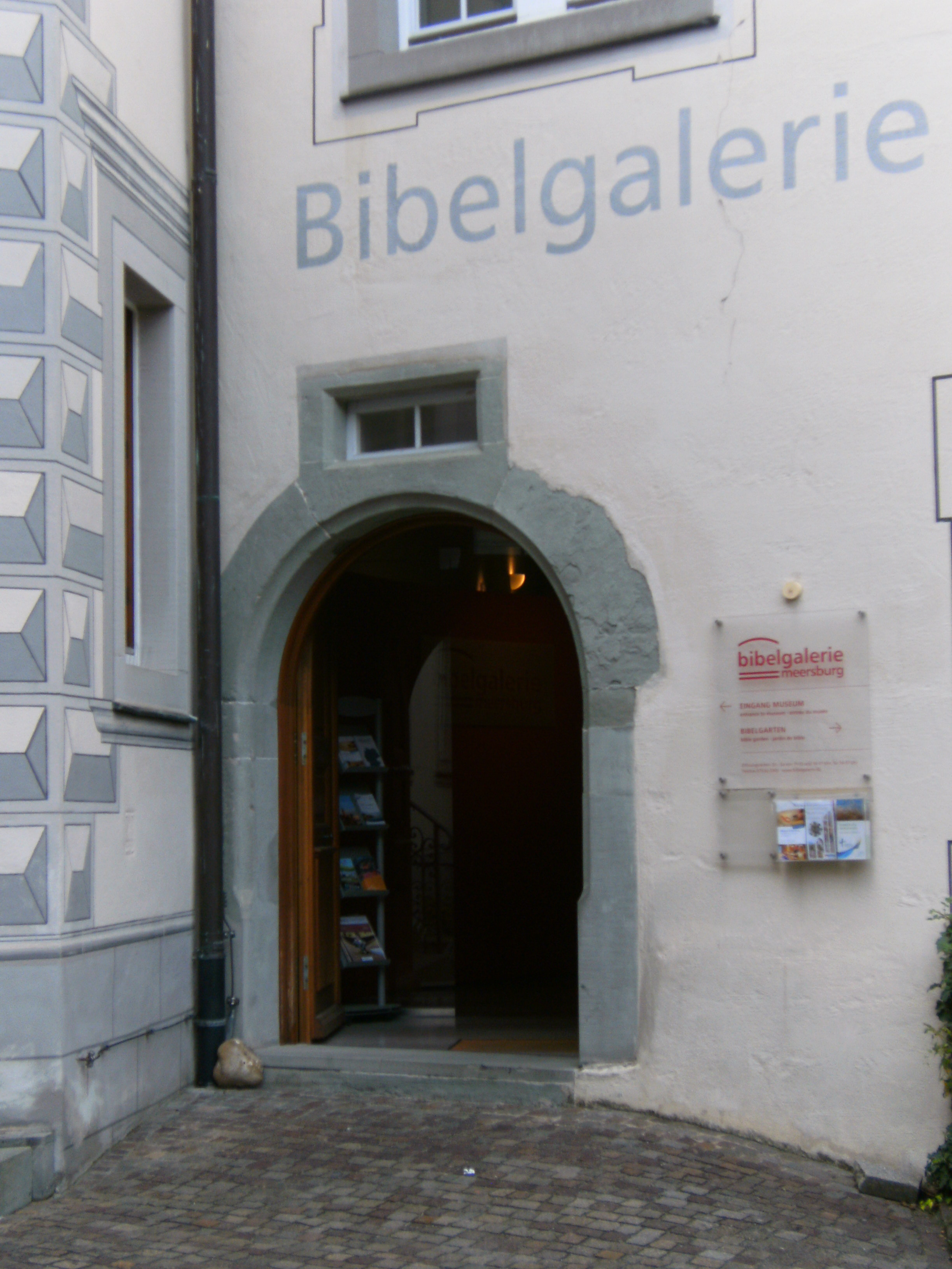 Meersburg, Germany, Biblical museum: Main entrance Stadtgraben/Kunkelgasse.